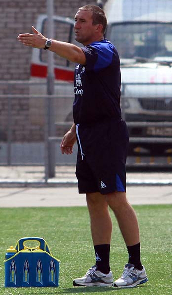 Alan Stubbs coaching Everton Reserves